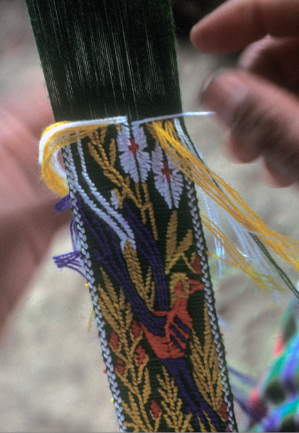 Detail of hairsash being brocaded on a Jacaltec Maya backstrap loom.